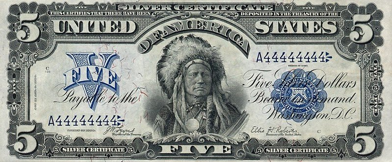 5$ silver certificate, depicting American Indian